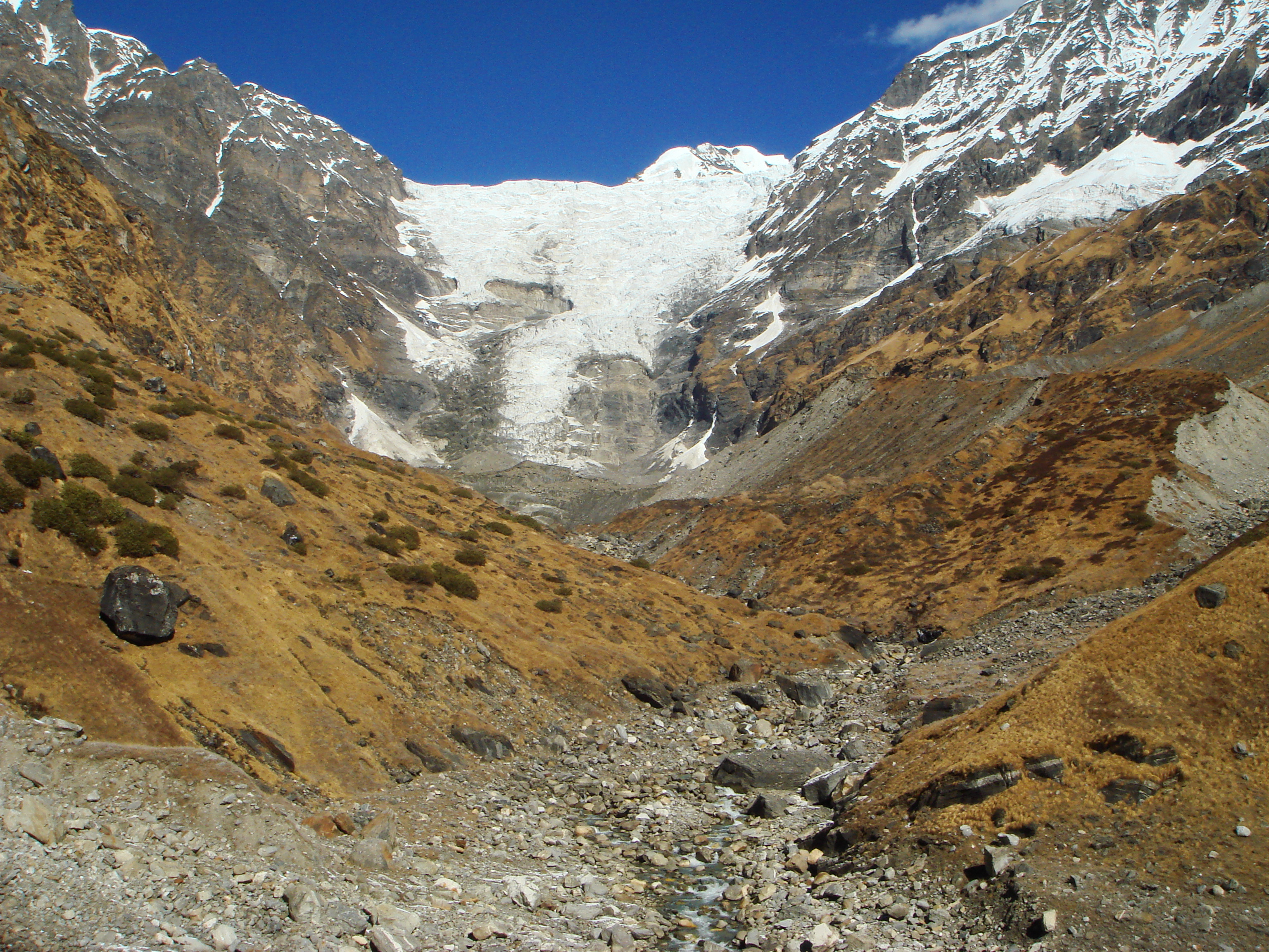 Kafni Glacier as seen from zero point. Date taken 28th Nov 2008, 11:30 AM. Author: Anurag Kumar Jain, Self Upload